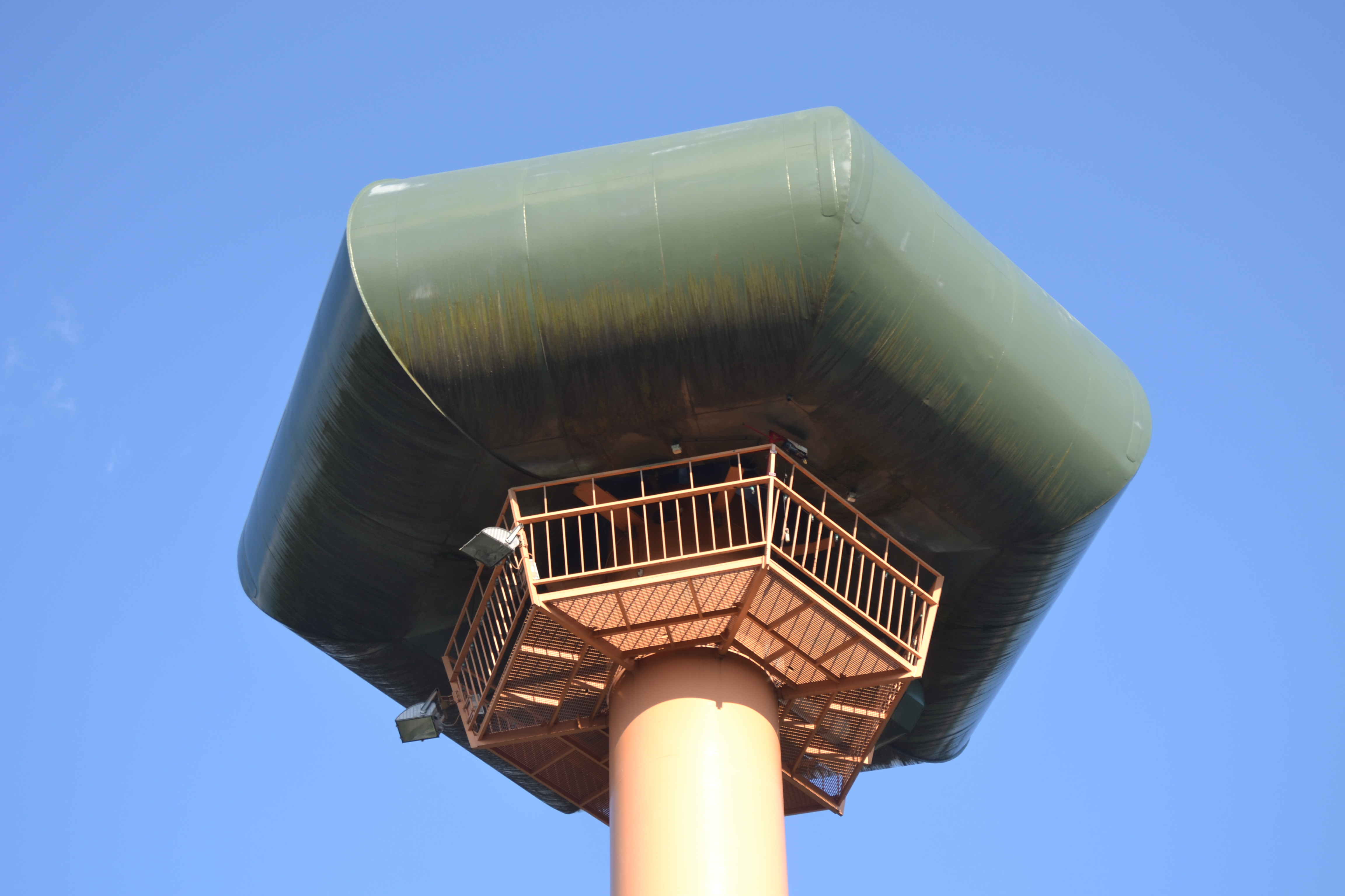 Container of Parkano water tower in Finland